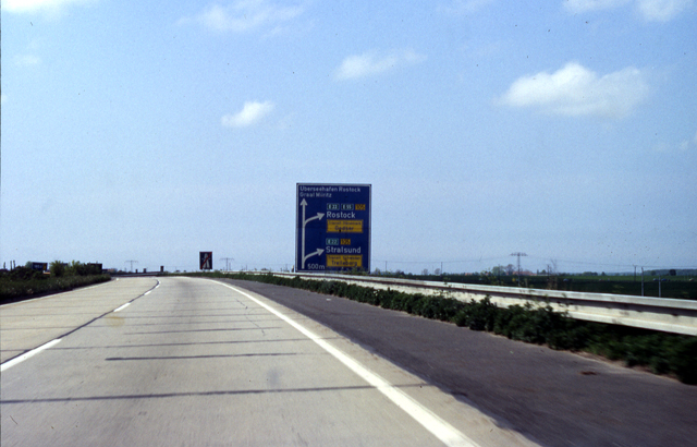 Empty motorway approaching Rostock